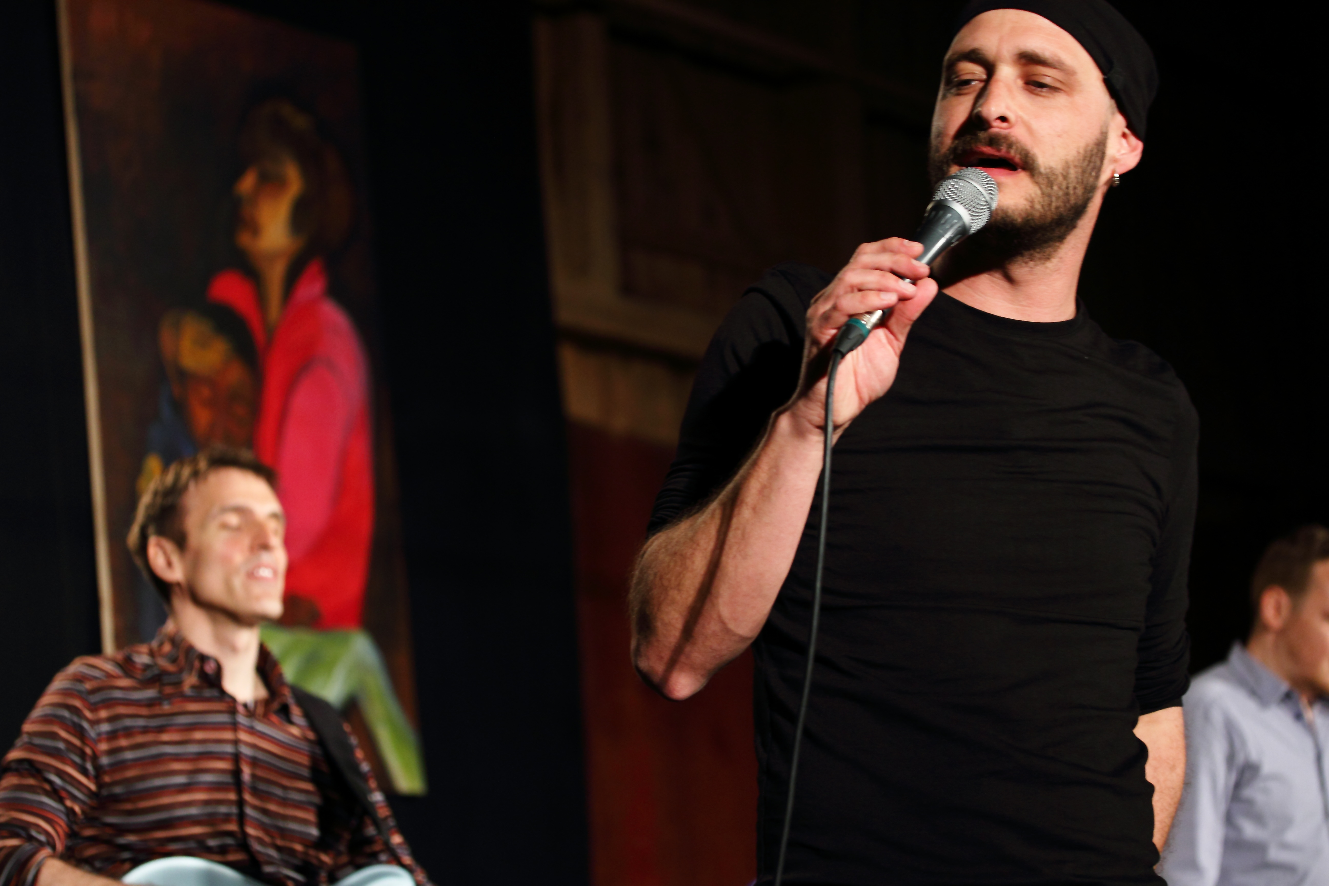 The Jazz trio Rom/Schaerer/Eberle at INNtöne Jazzfestival, Austria 2016.